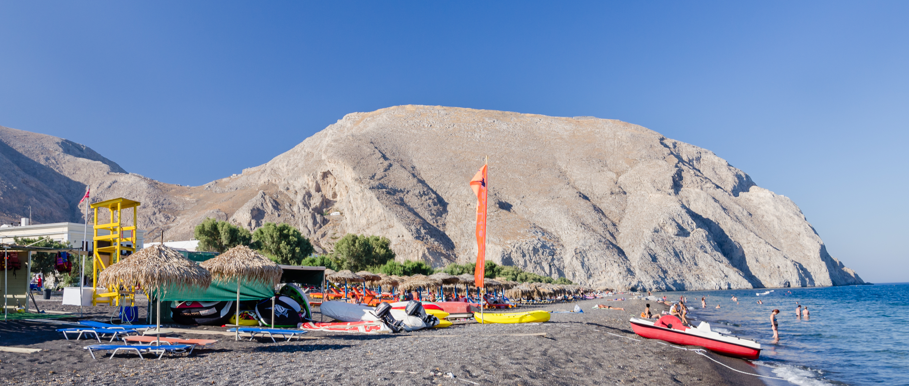 Perissa beach and Messa Vouno with ancient Thera, Santorini, Greece.